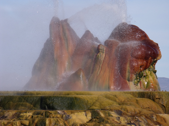 Fly Geyser in Nevada